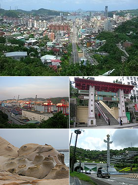 Montage of various Keelung images Bân-lâm-gú: Ke-lâng-tshī ê kíng-sik. 基隆市的景色。